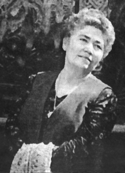 Silva Kaputikyan, an Armenian poetess